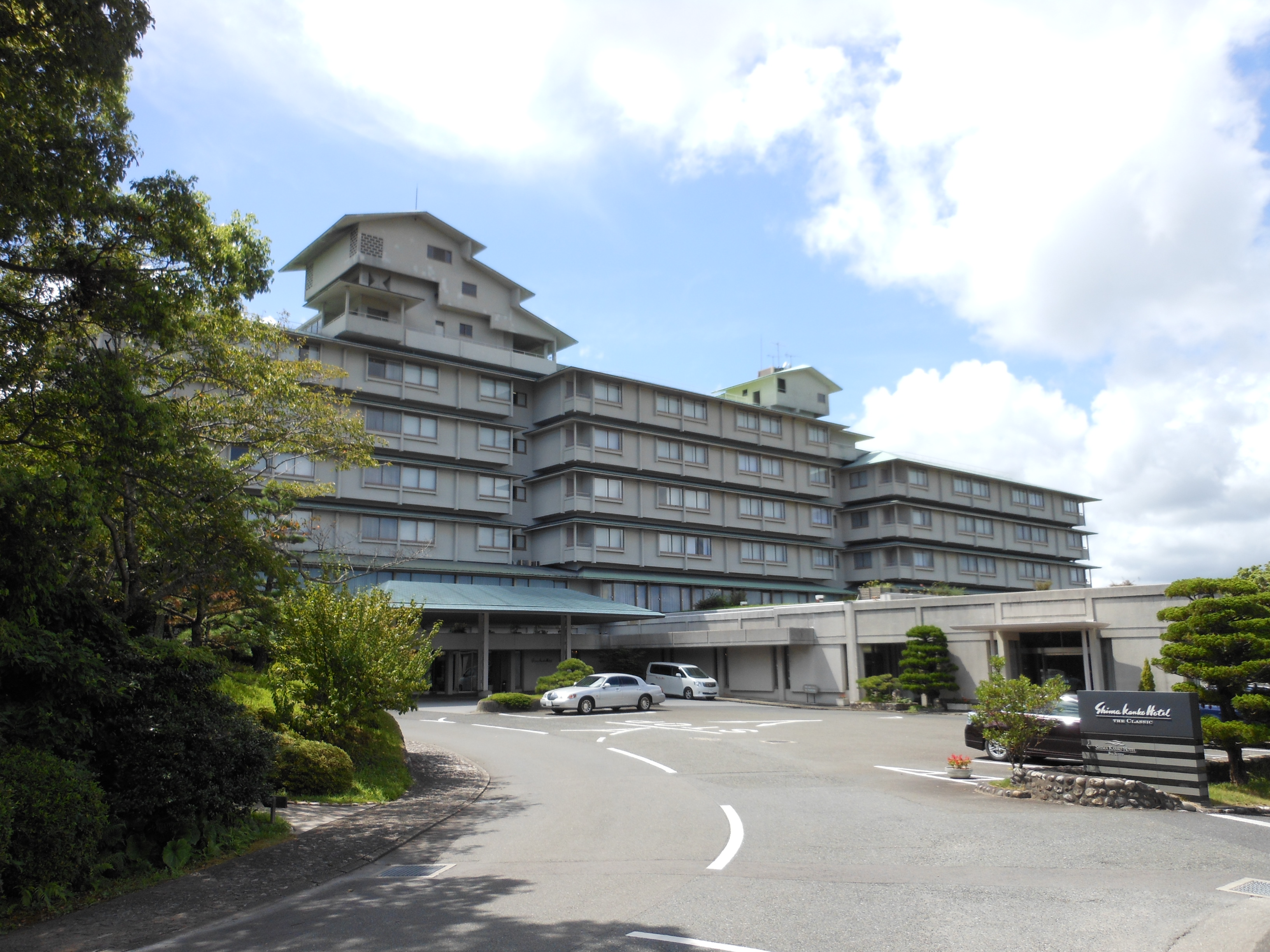 This is a hotel in Japan.